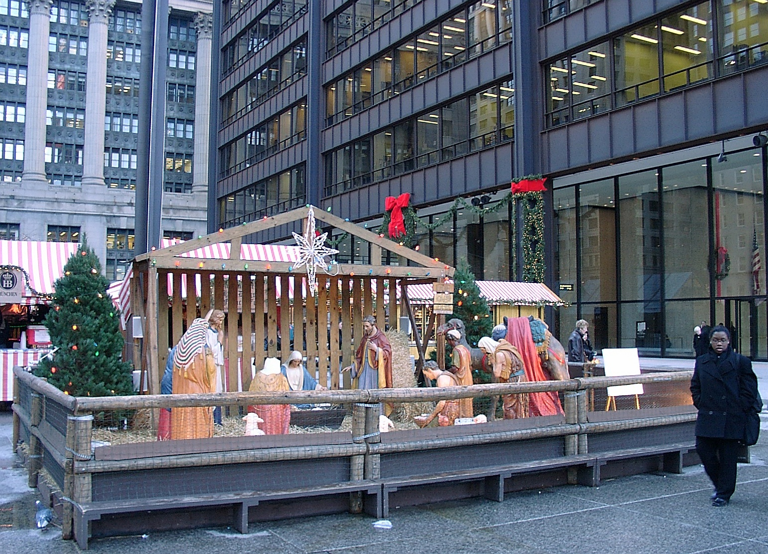 Nativity scene on the 2001 Christkindlmarket in downtown Chicago